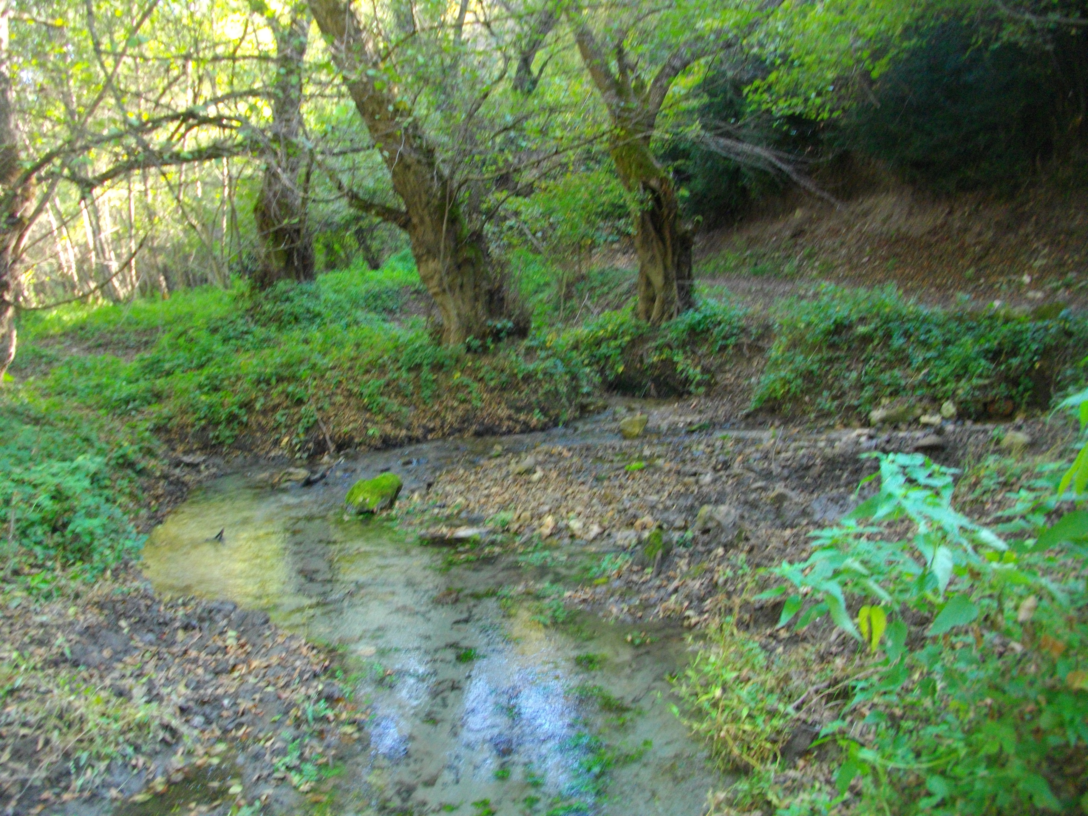 Asanoec Devič